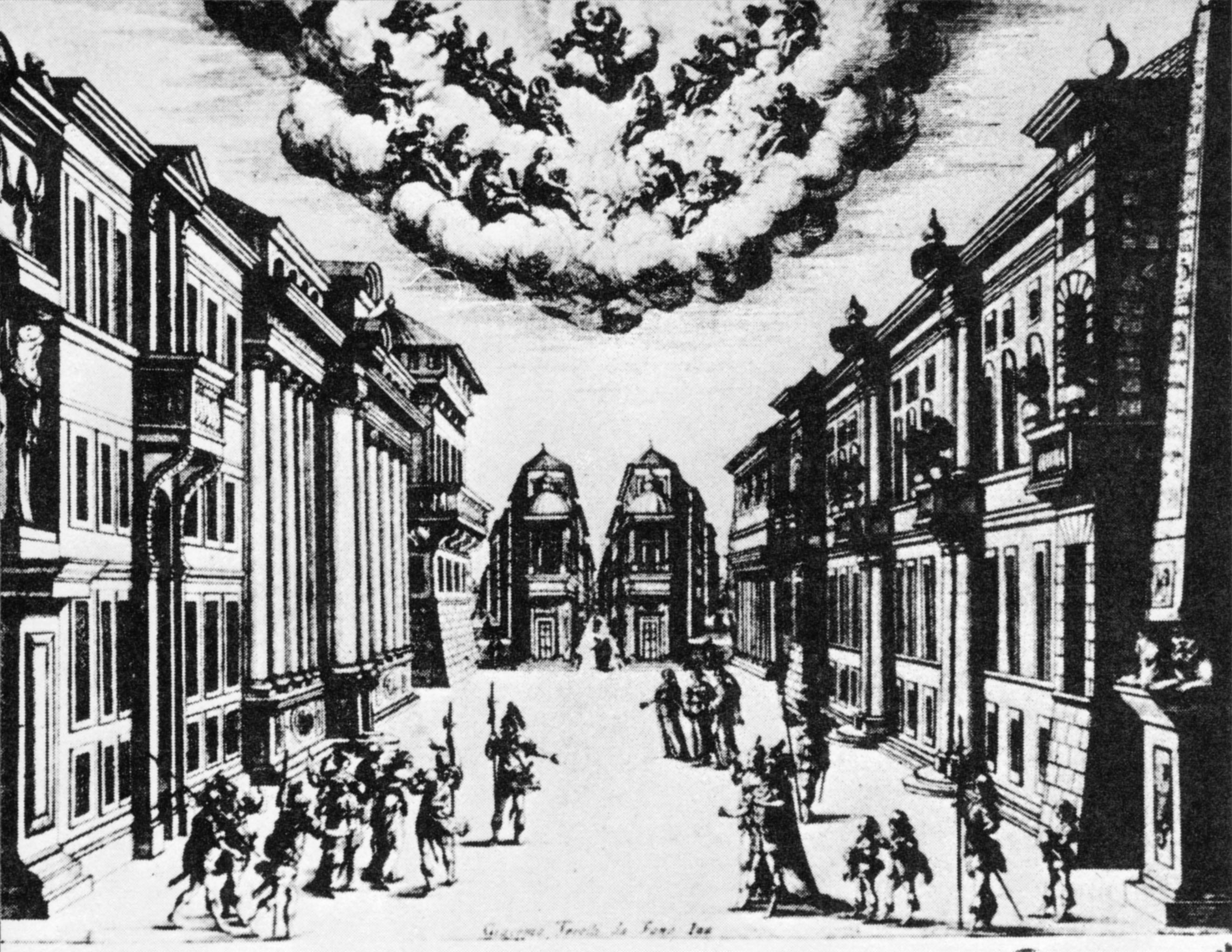 Set design by Giacomo Torelli for Francesco Sacrati's opera La finta pazza as performed at the theatre in the Petit-Bourbon in Paris in 1645